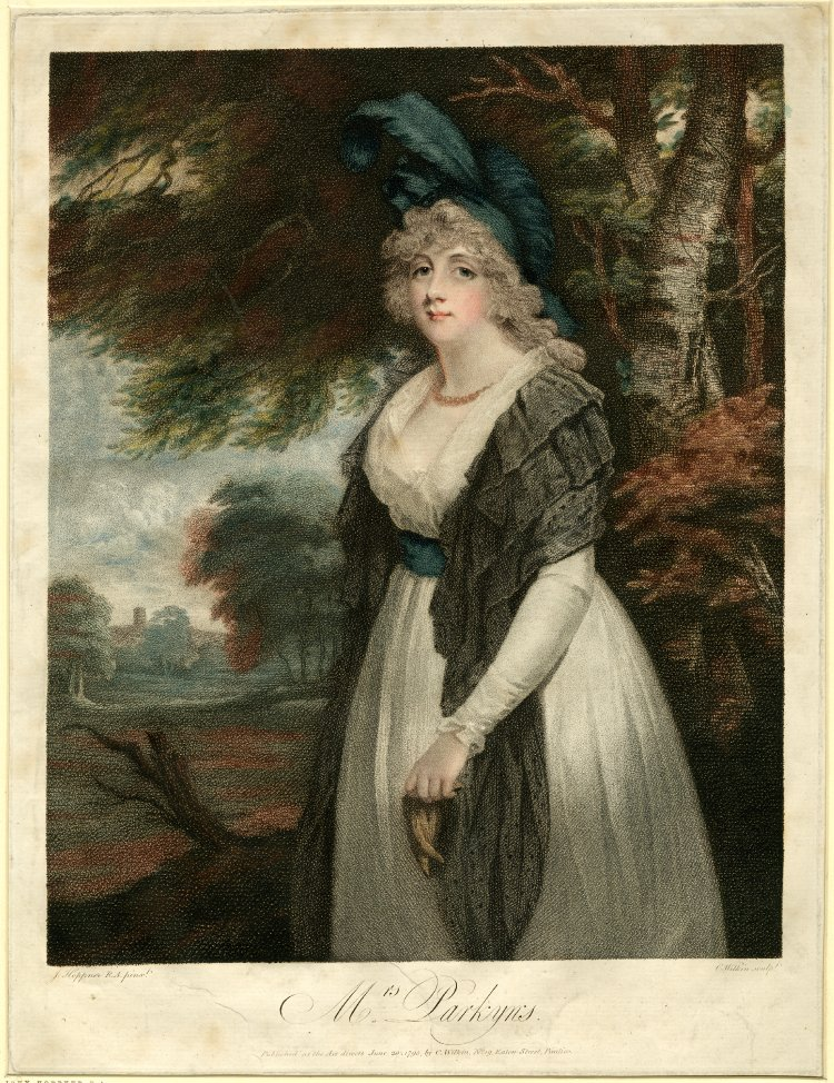 Lady Rancliffe nee Elizabeth Anne James, married to Thomas Boothby Parkyns, 1st Baron Rancliffe (1755–1800)